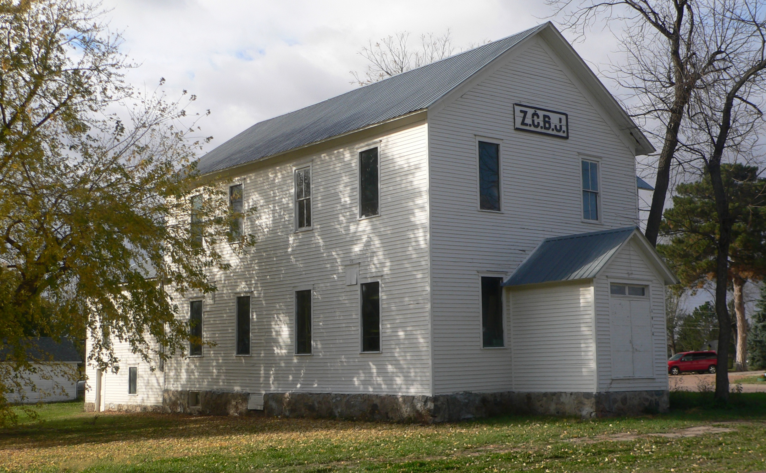 ZCBJ Hall, located at 1910 Ivy Street (southwest corner of 19th and Ivy Streets) in Tyndall, South Dakota; seen from the southeast.